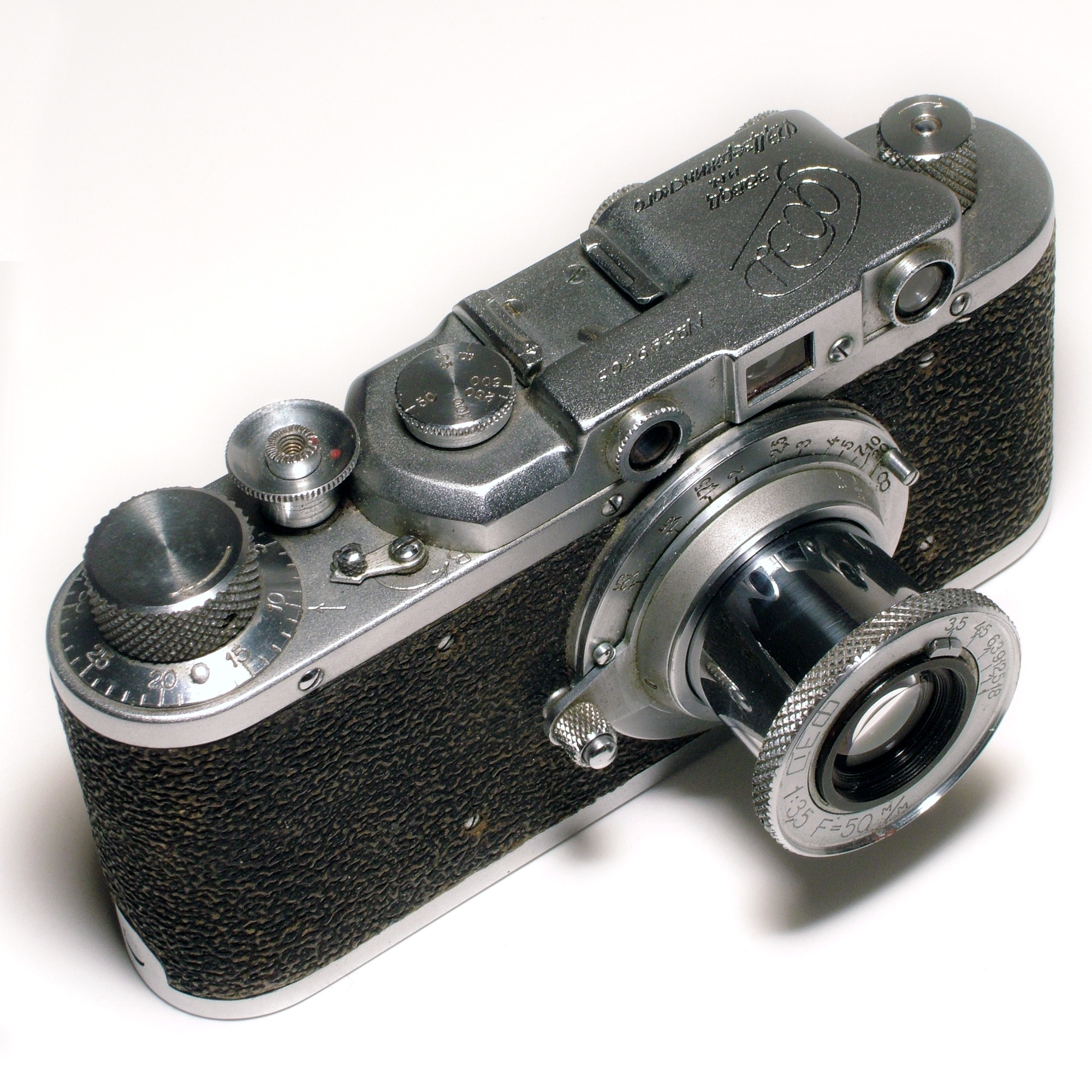 Fed 1 model IV with ФЭД 50mm f 1:3,5